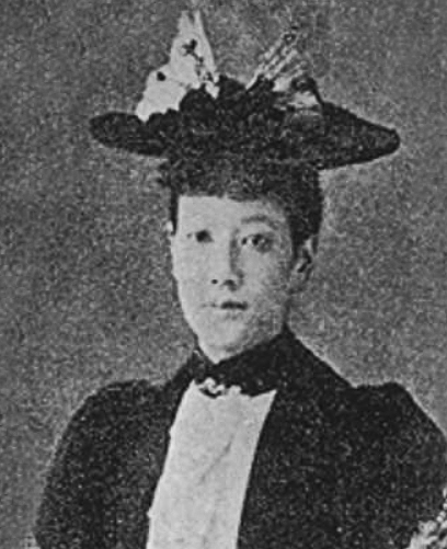 Portrait of Oyama Sutematsu (大山捨松, 1860 – 1919)